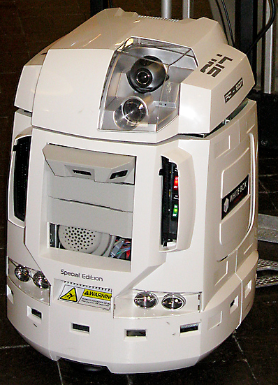 Picture of a 914 PC-BOT